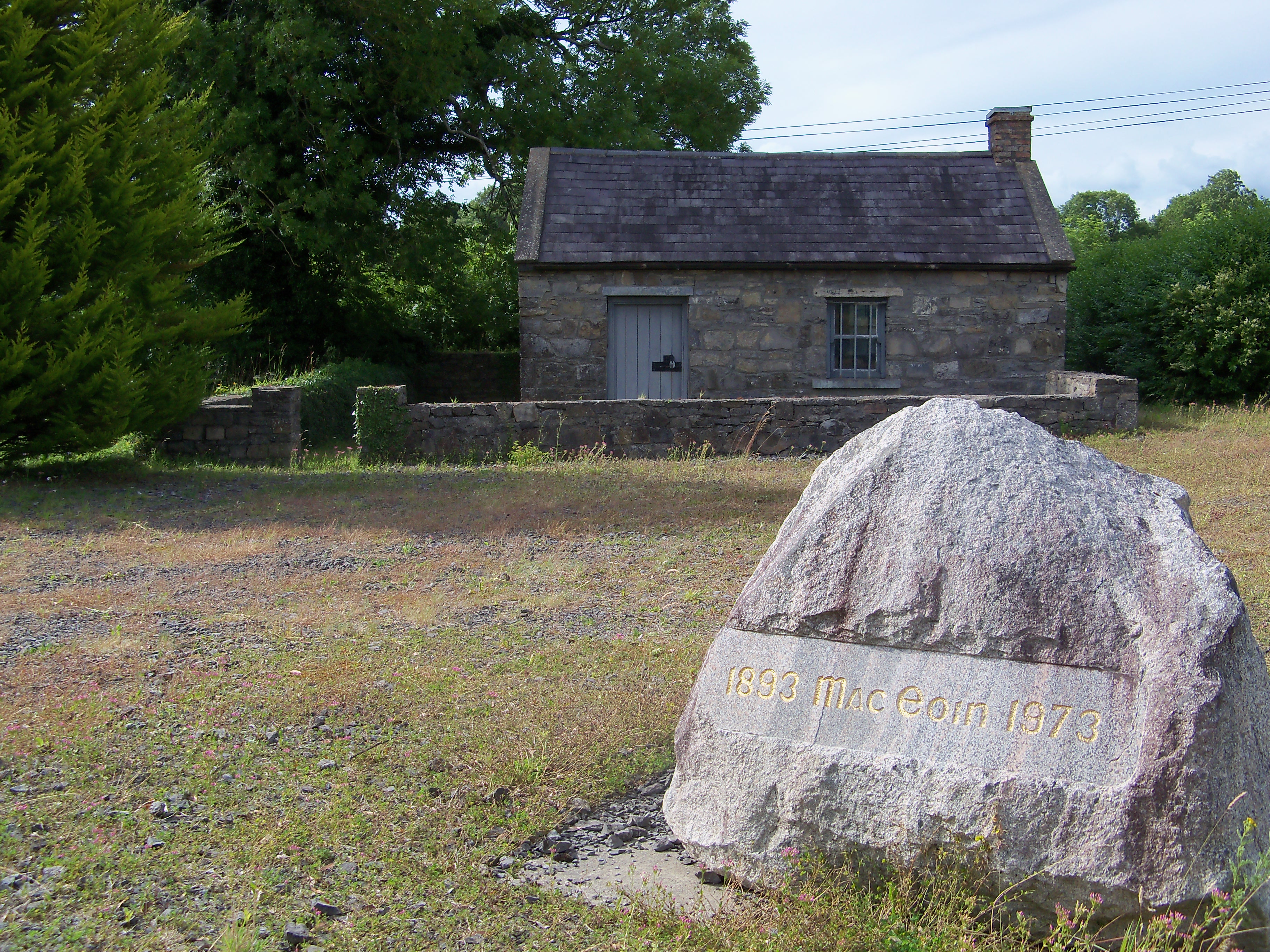 This is the work site (or forge) of Sean MacEoin, in Ballinalee, Ireland. Before he went on to a distinguished career as an Irish general and statesman, he was known as the "Blacksmith of Ballinalee."